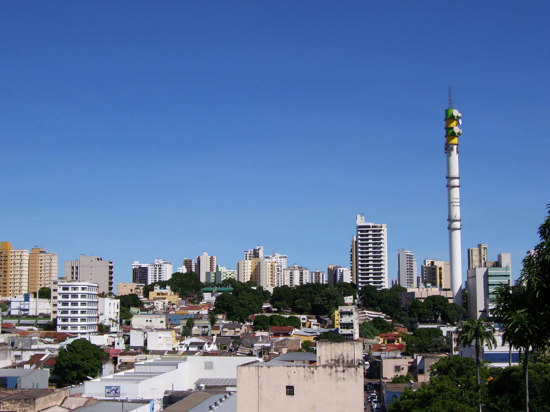 View of Cuiabá, Mato Grosso, Brazil.